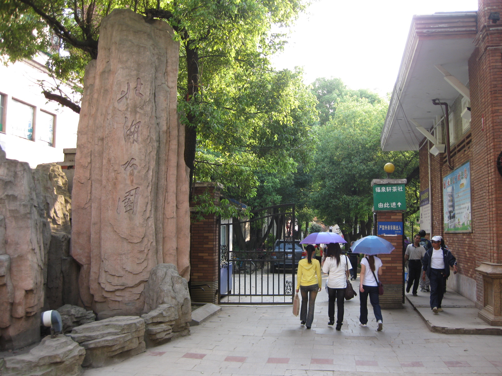 Northern Gate of Beihu Park